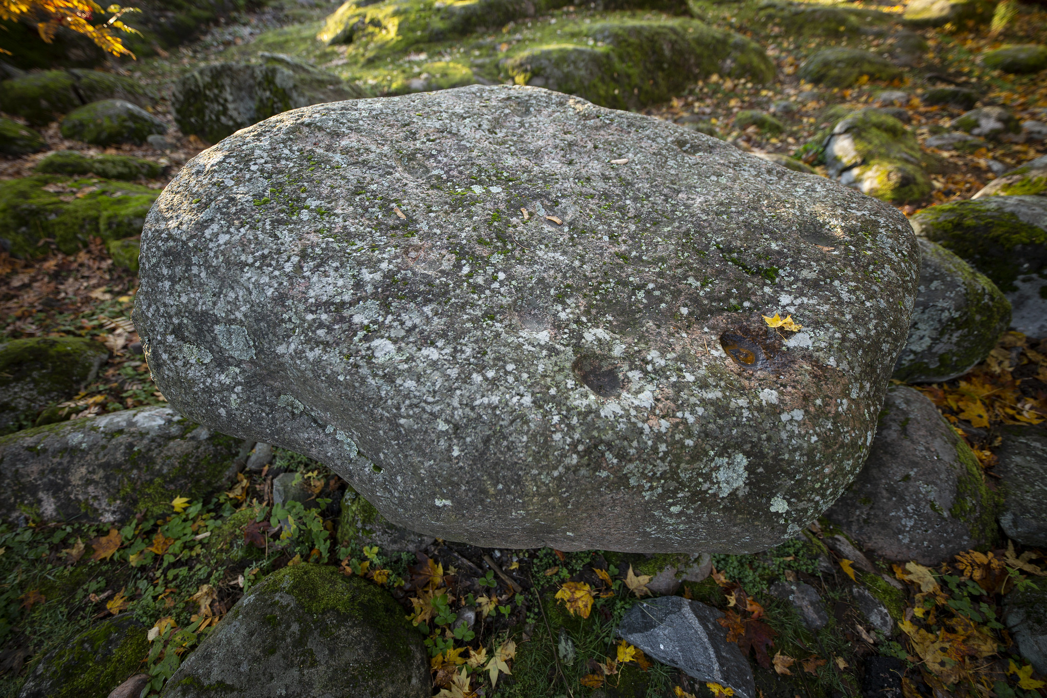 Cup marked stone in Korkeasaari, Helsinki. It is the first one found in Helsinki. Its location states that it might be from bronze age, which is exceptional in Finland. The stone is located in Korkeasaari Zoo area, near the European forest reindeer exhibit.